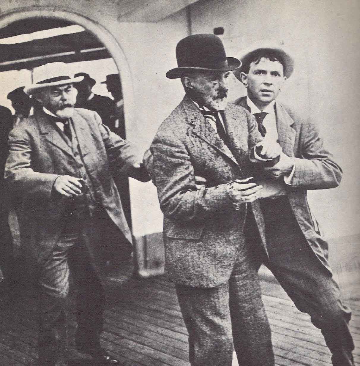 William Jay Gaynor, mayor of New York City, hit by assasin's bullet.